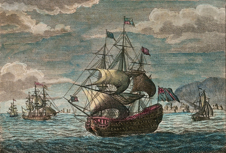 The Vengeance of 74 Guns sailing from Martinique with a fresh breeze; engraving, coloured